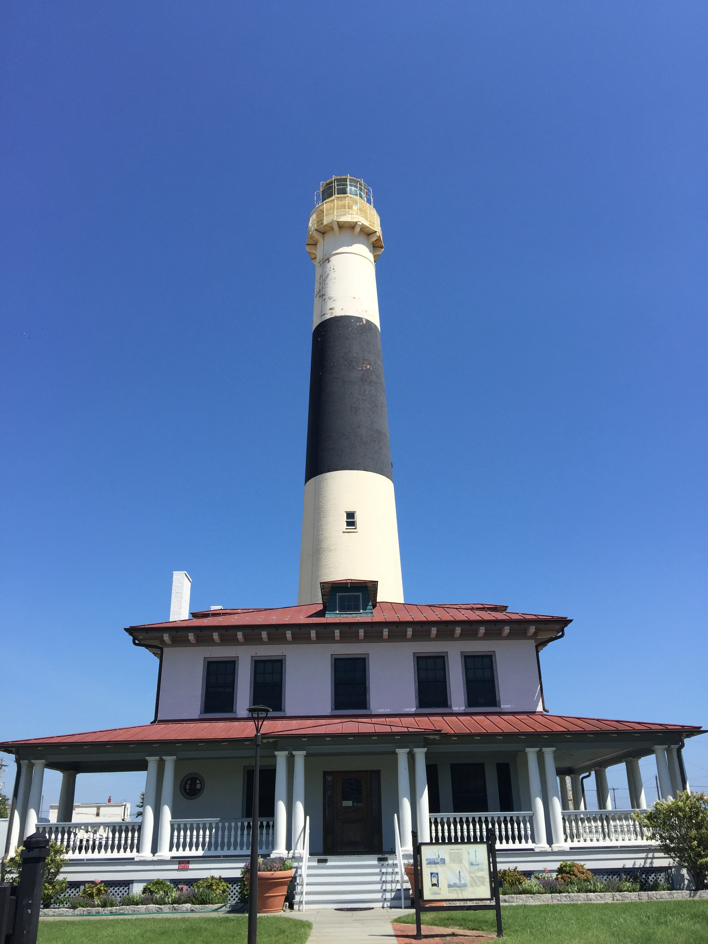 Absecon Lighthouse